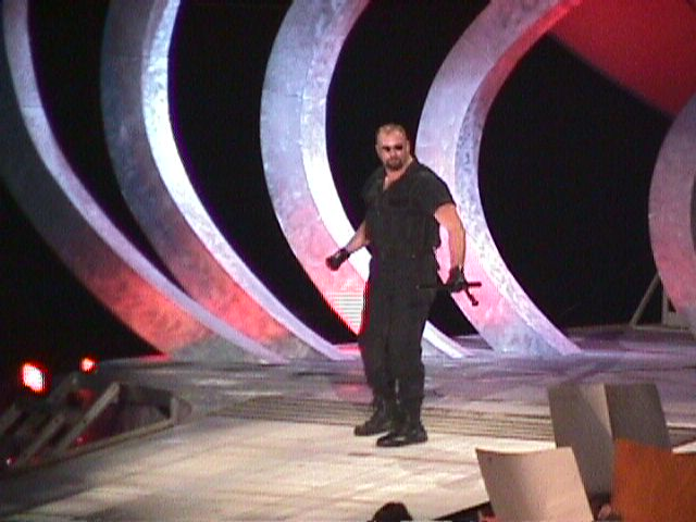 The Big Boss Man entering the ring for a match with The Big Show for WWF's Heat. The match was then actually shown on Smackdown after a scheduled match of Droz vs. D-Lo Brown left Droz a quadriplegic and the WWF chose not to air it. (good move# October 7, 1999 Nassau Coliseum - Long Island, NY.